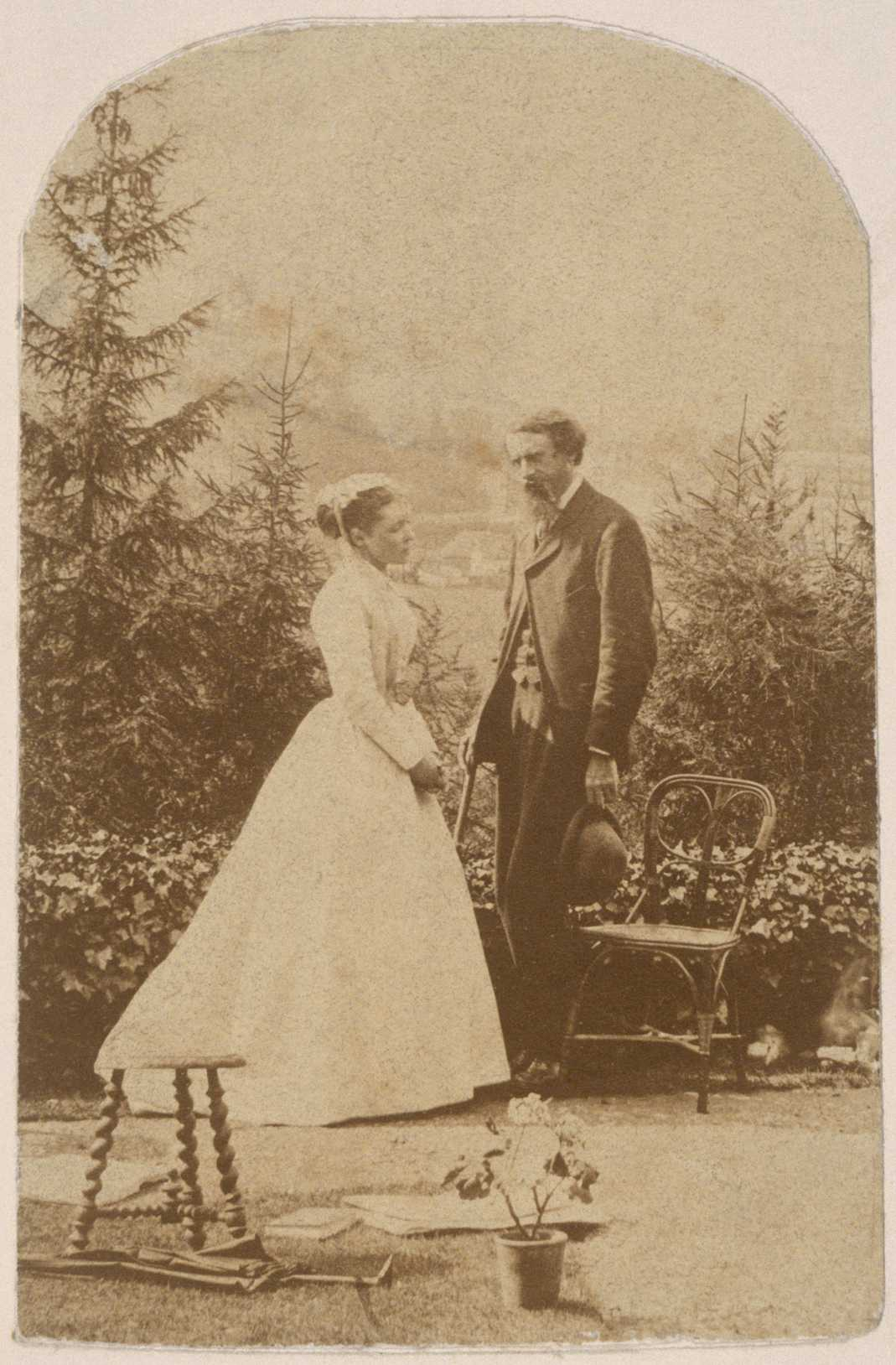 Harriet and Leslie Stephen, photographed in 1867. From Leslie Stephen's photograph album. Original: albumen print (9.3 x 5.9 cm., arched top) Photograph courtesy of the Mortimer Rare Book Room, Smith College, Northampton, Massachusetts. Harriet was the daughter of William makepeace Thackeray, also known as Minny.